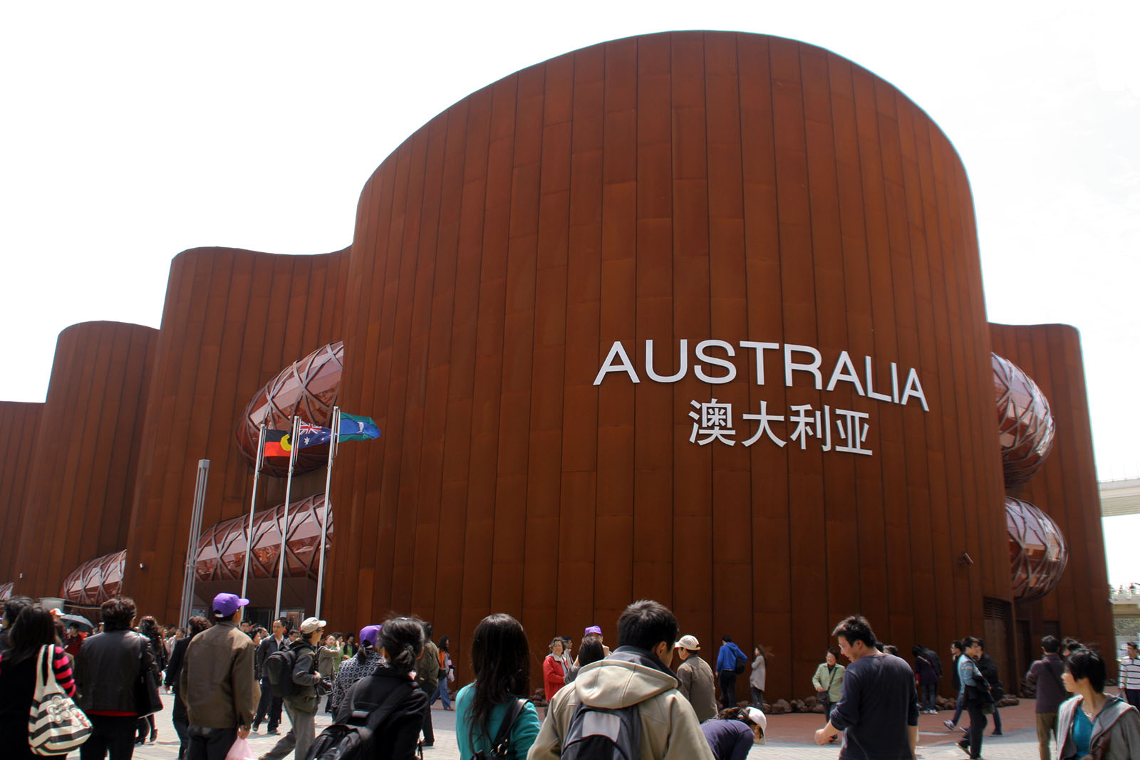 Australia Pavilion of Expo 2010